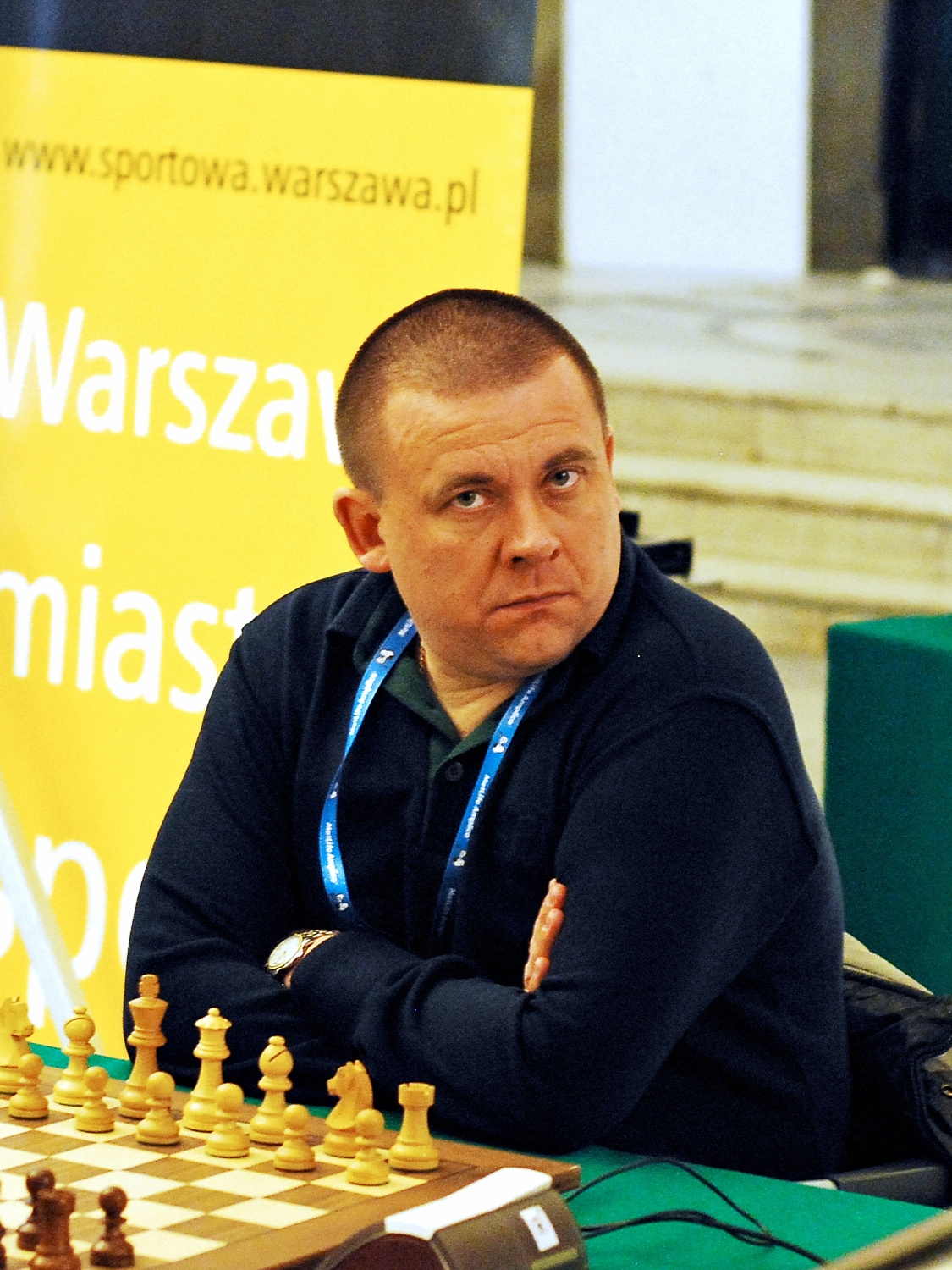 GM Sergei Rublevsky, European Rapid Chess Championship, Warsaw 2012.